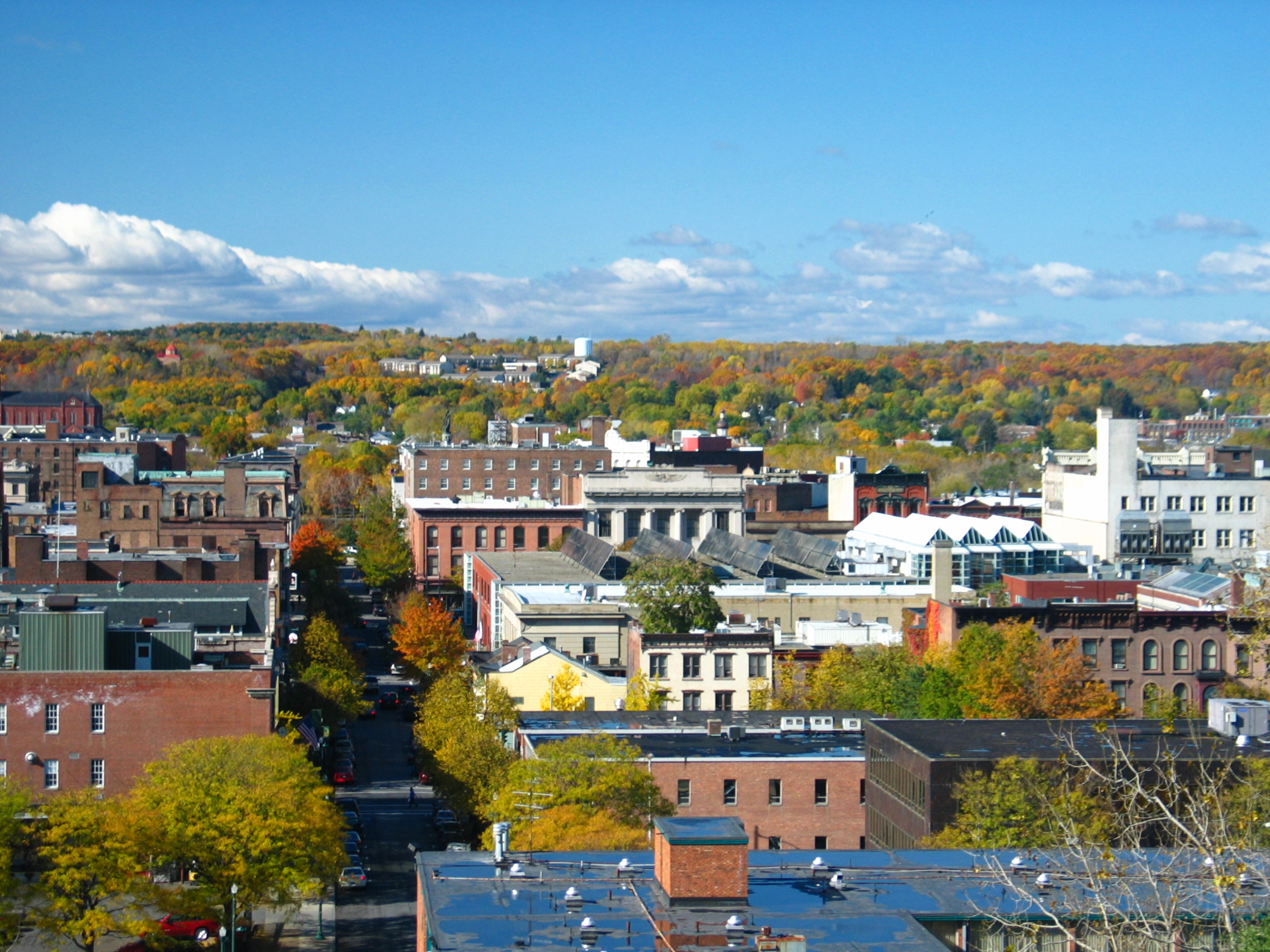 Westward view of Broadway in Troy, New York taken from the campus of Rensselaer Polytechnic Institute